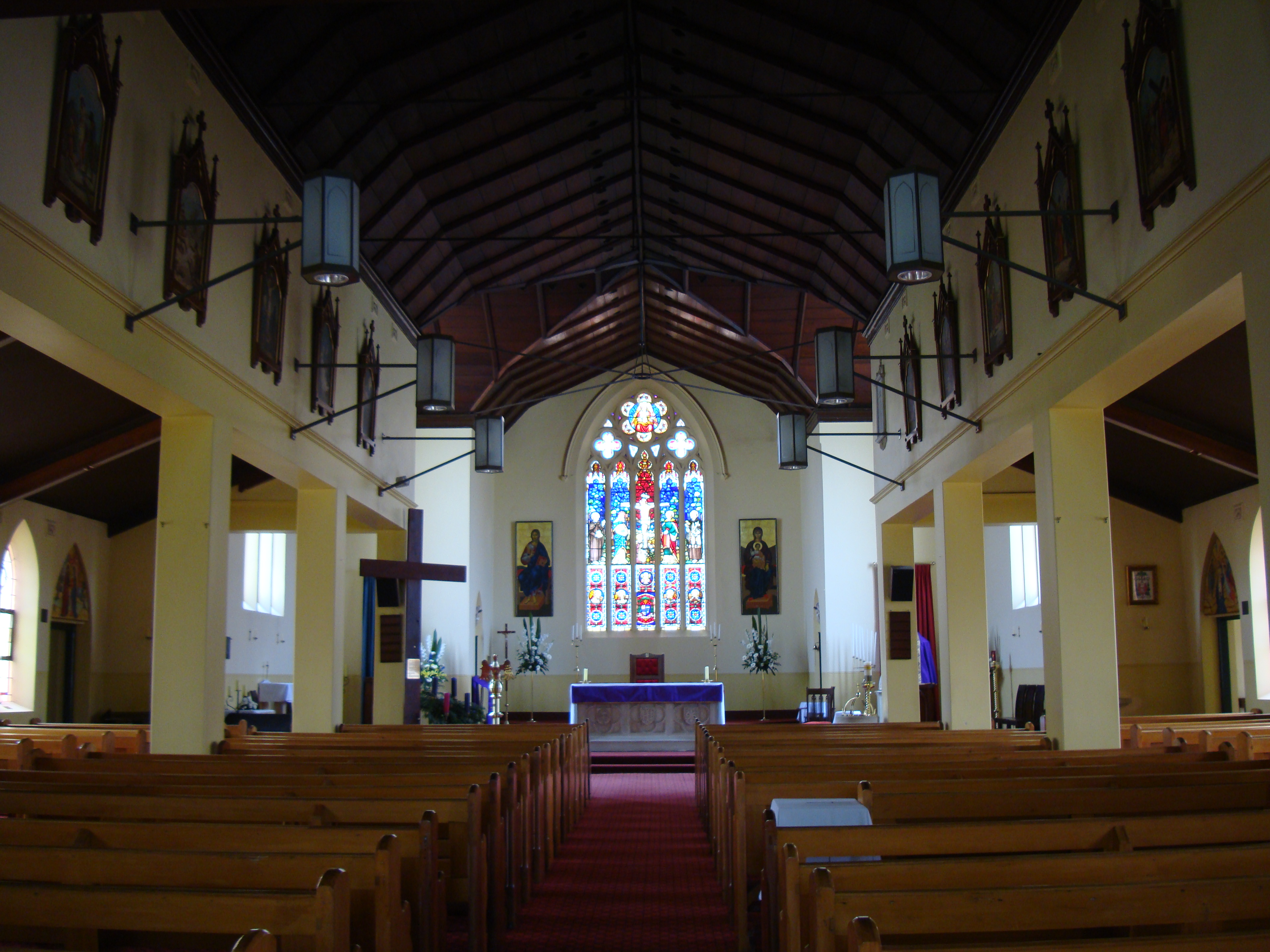 Photograph of the interior of St Francis Xavier Cathedral, Wollongong, New South Wales, Australia